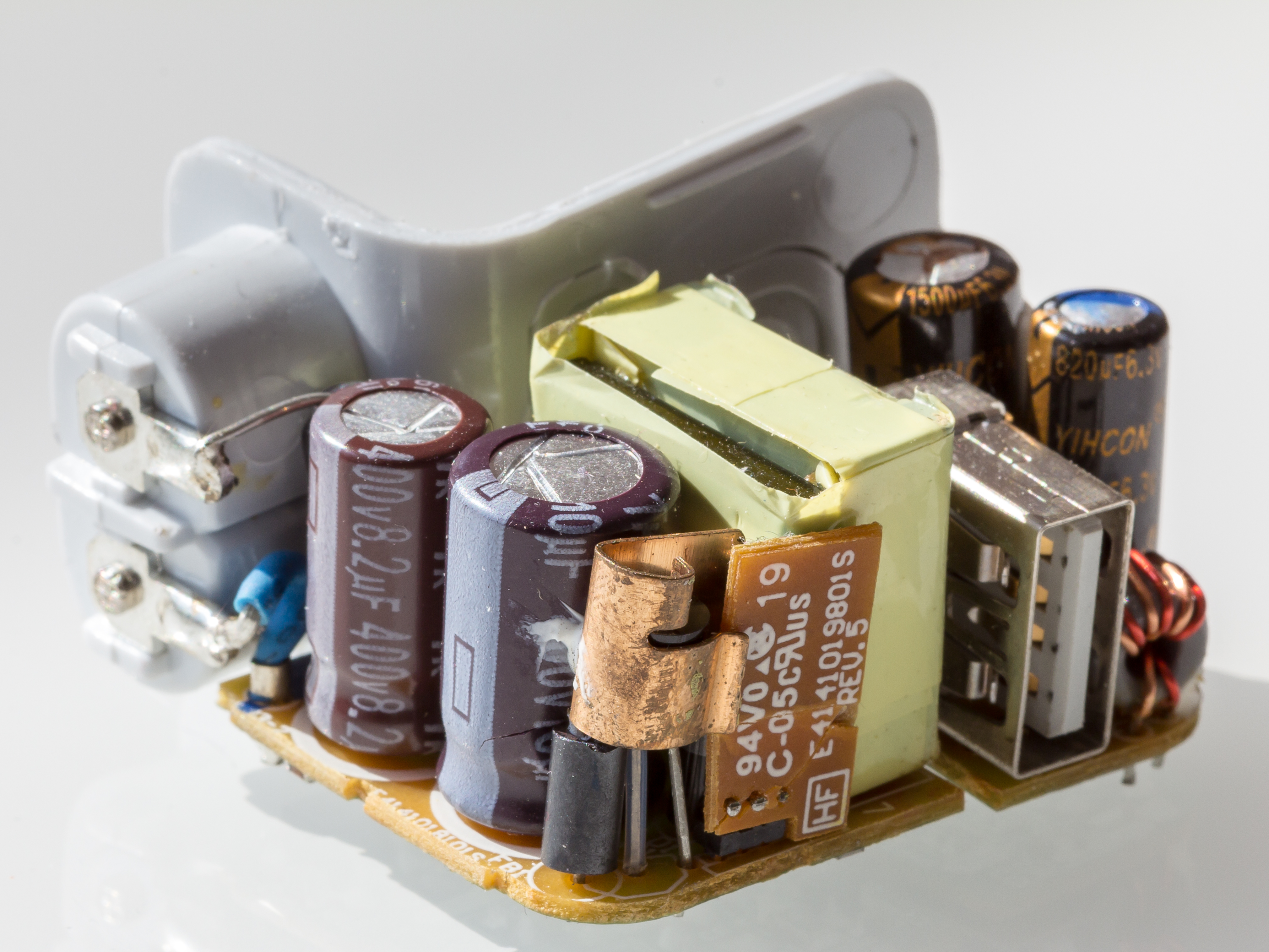 USB power adapter for Apple iPod, Model A1205, by Foxlink Technology Ltd. Detailphoto: Case dismantled